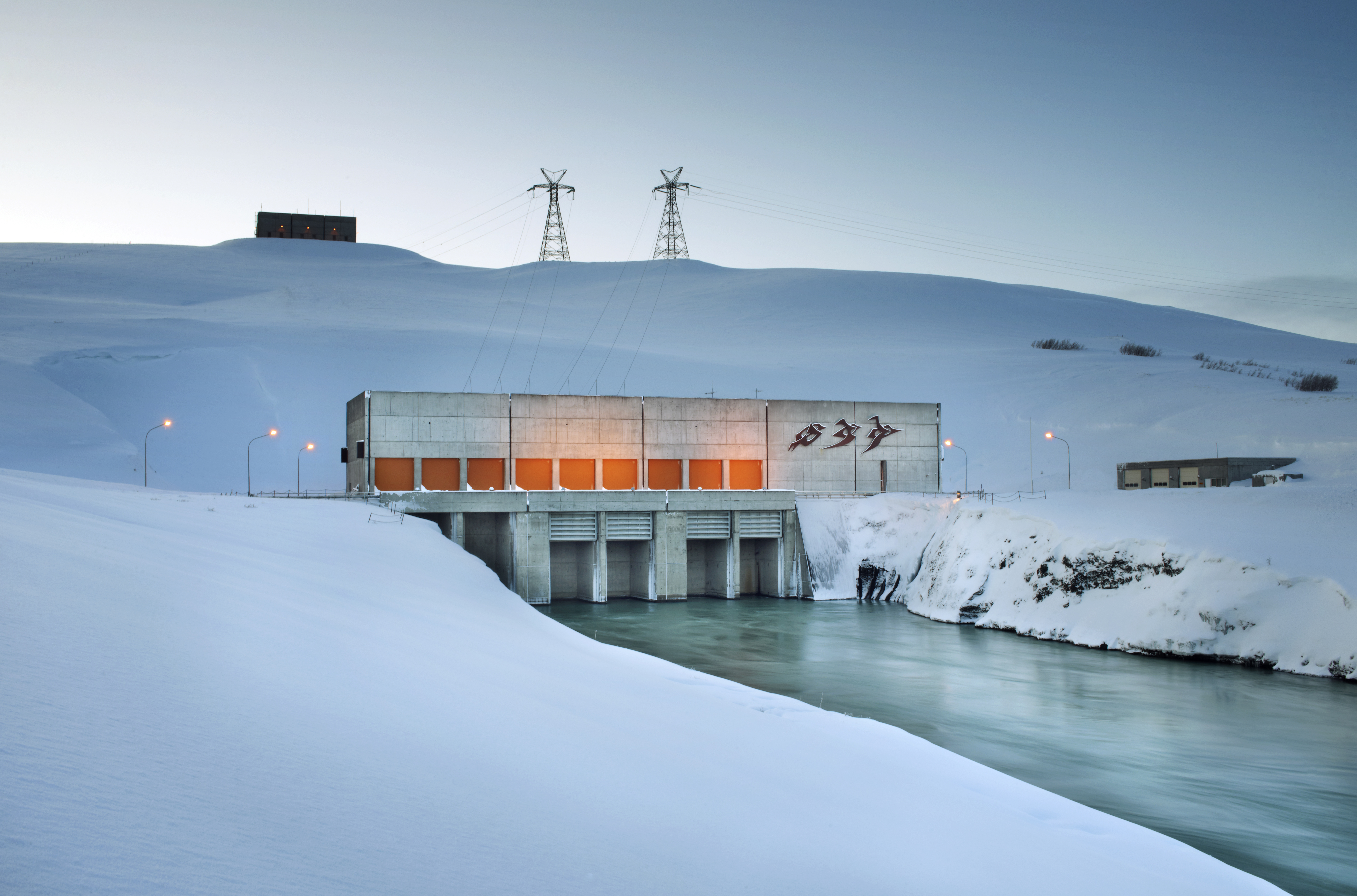 Hrauneyjafoss Power Station